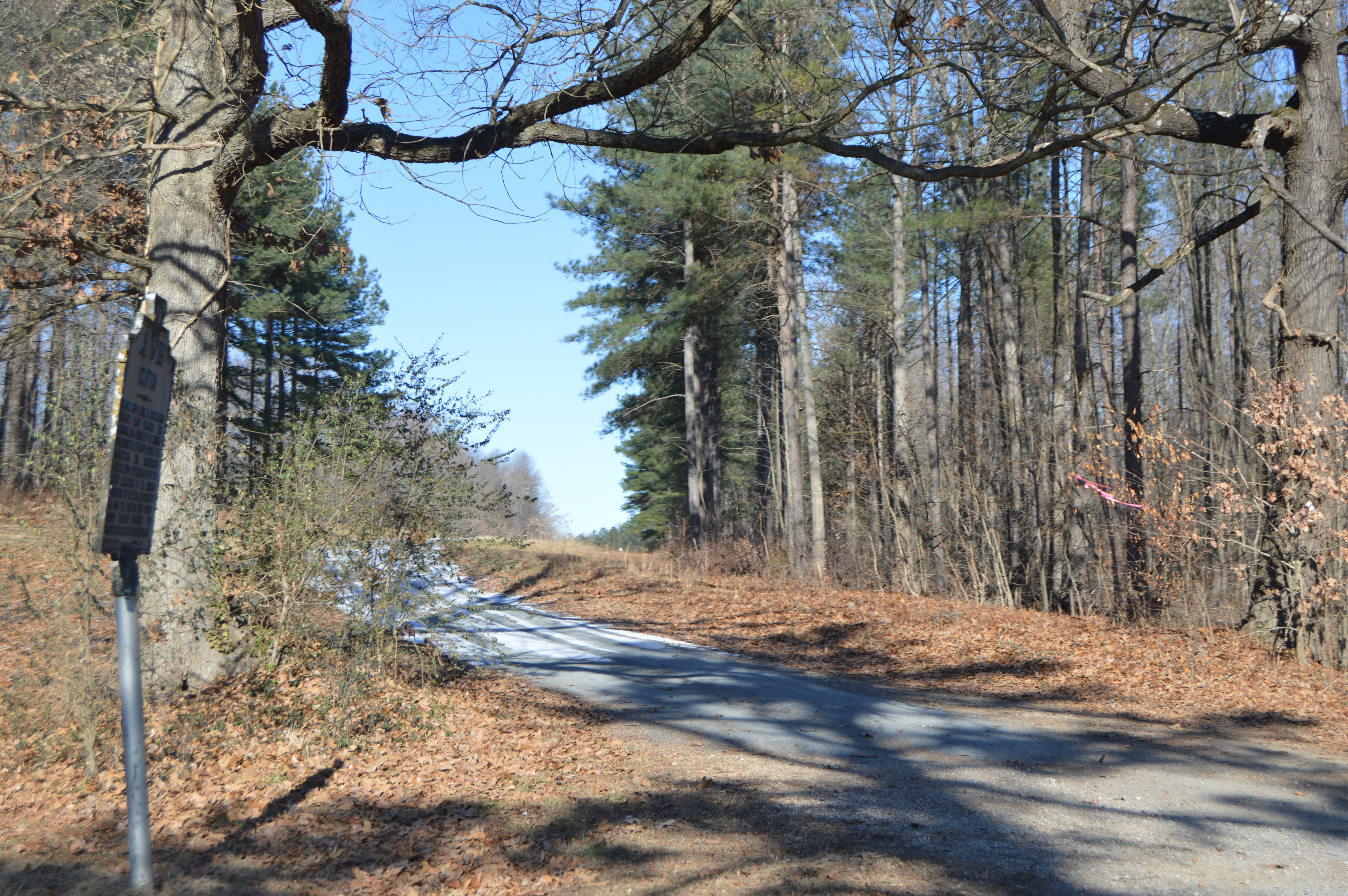 Entrance to the Clifton estate, located off Columbia Road just northwest of Hamilton in Cumberland County, Virginia, United States. The estate is listed on the National Register of Historic Places.